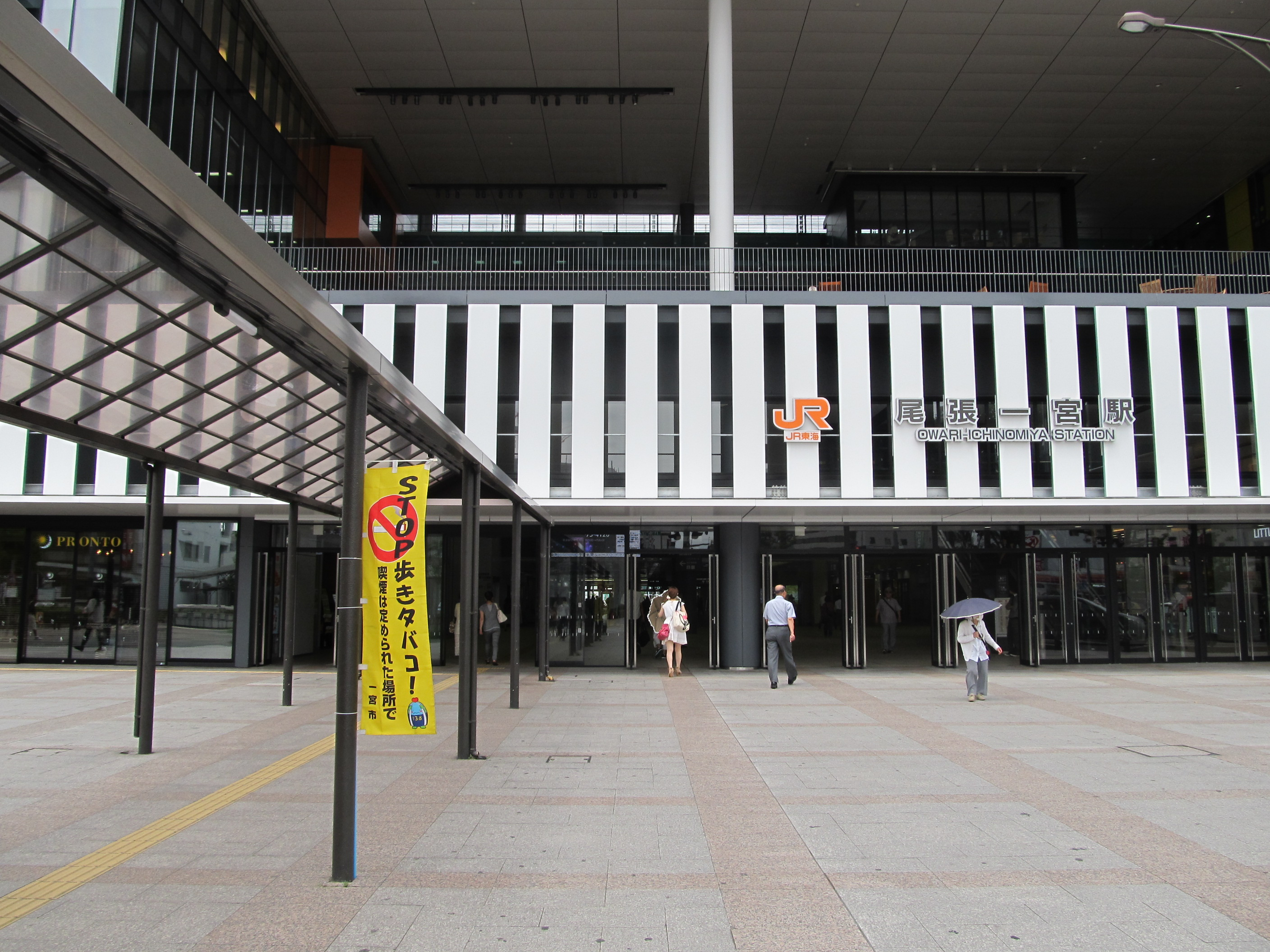 Central Japan Railway Tōkaidō Main Line Owari-Ichinomiya Station Building.